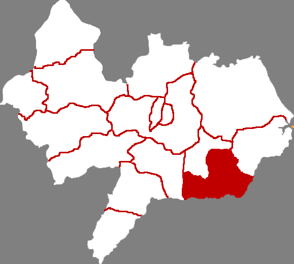 Location of Yanshan county in Cangzhou City, China